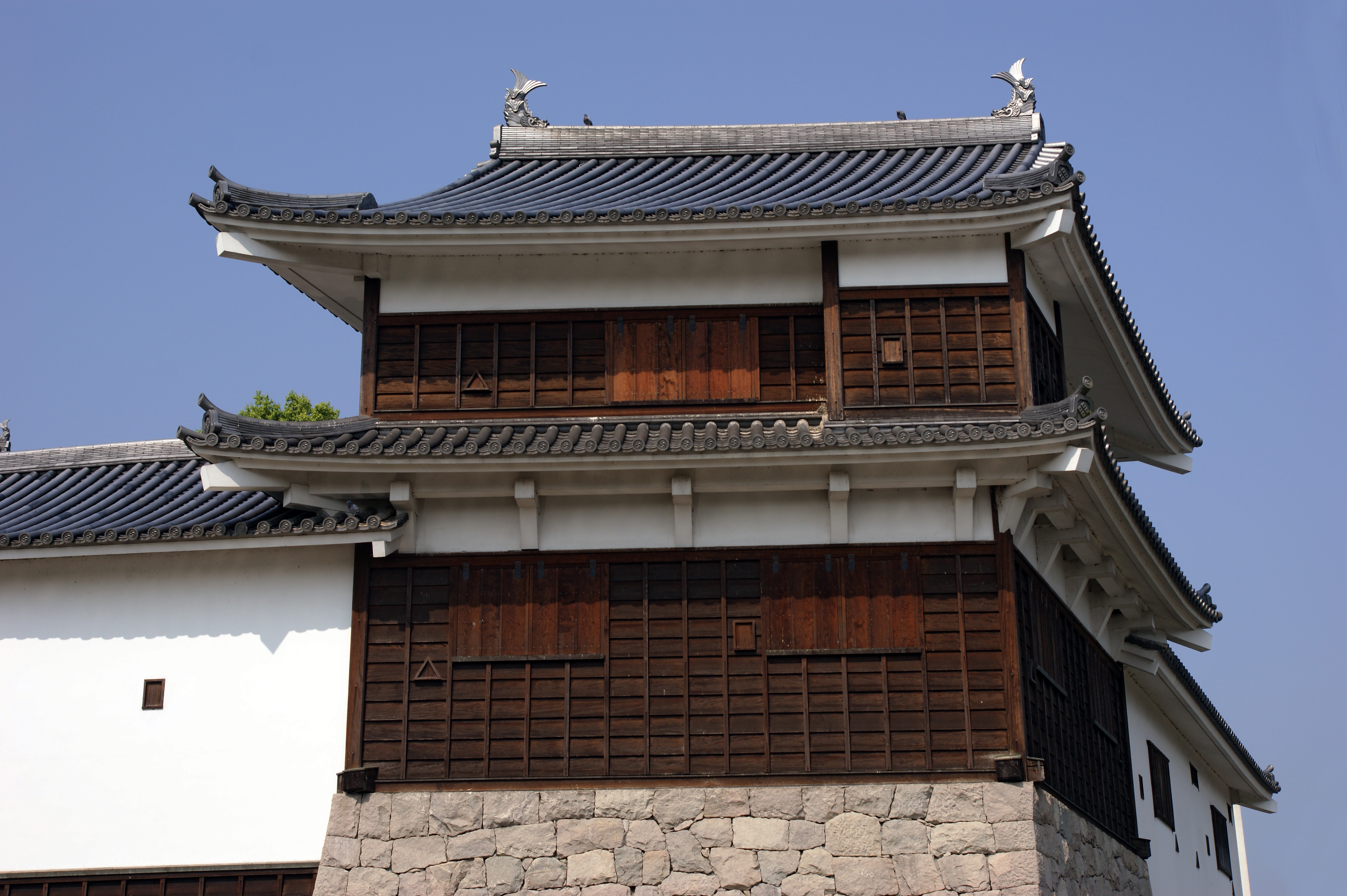 Taisei Sato Memorial Art Museum in Fukuchiyama, Kyoto prefecture, Japan